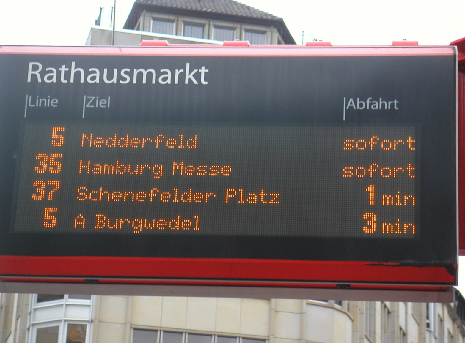 Passenger Information and Management System Display (FIMS) on the Rathausmarkt in Hamburg.